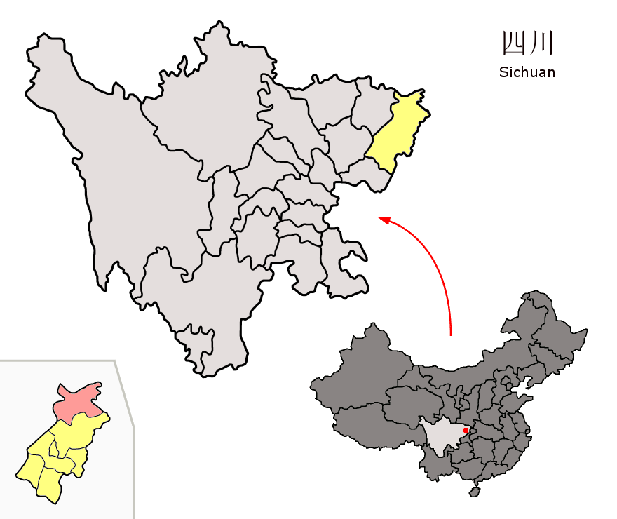 Location of Wanyuan City (pink) and Dazhou Prefecture (yellow) within Sichuan province of China Map drawn in october 2007 using various sources, mainly : Sichuan province administrative regions GIS data: 1:1M, County level, 1990 Sichuan Counties map from